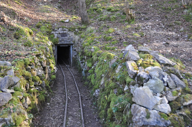 Goodluck Mine - Adit, near to Middleton, Derbyshire, Great Britain. A view of the small adit and tramway into the mine.